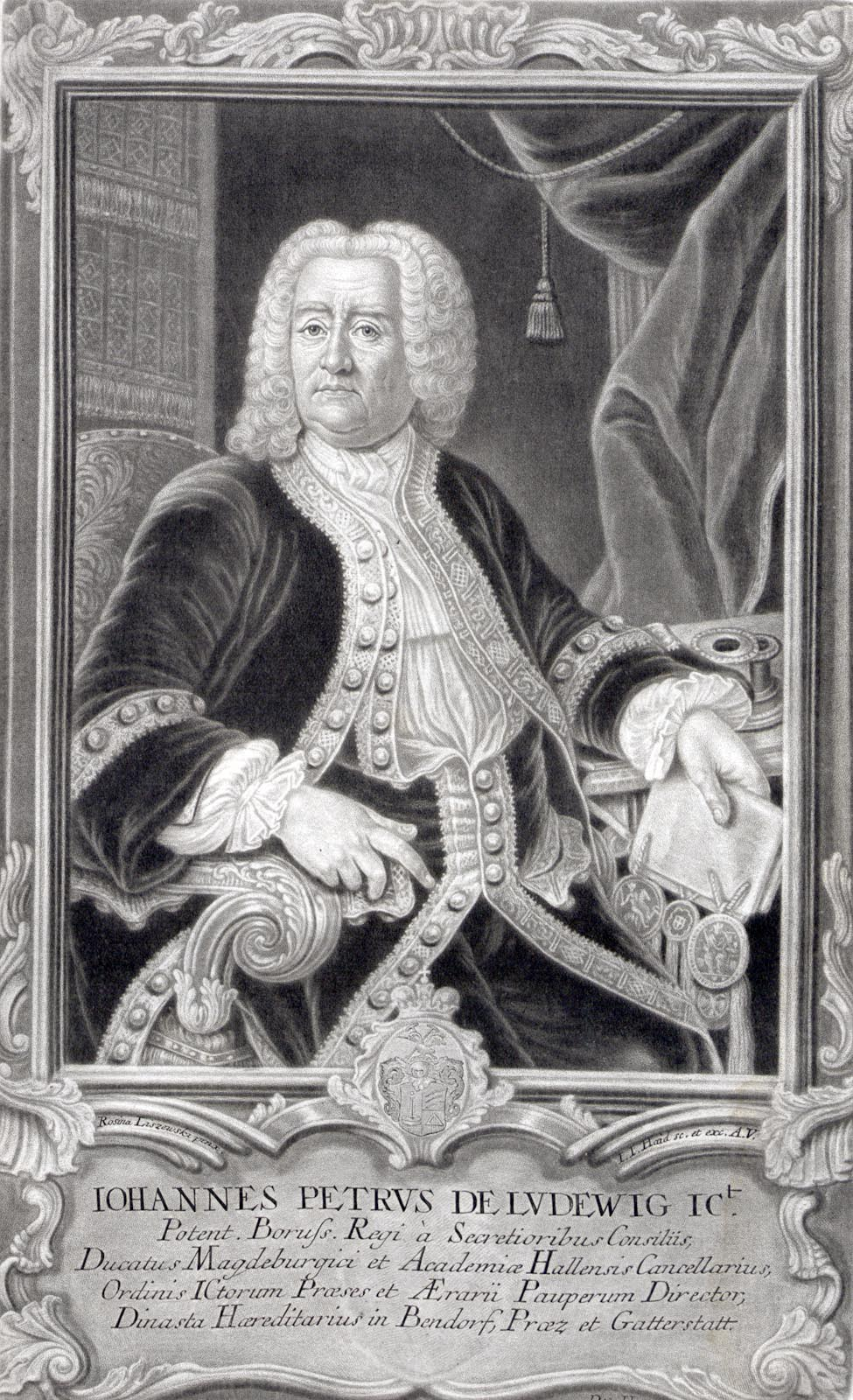 Johann Peter von Ludewig (1668-1743) Jurists from Germany and Historian